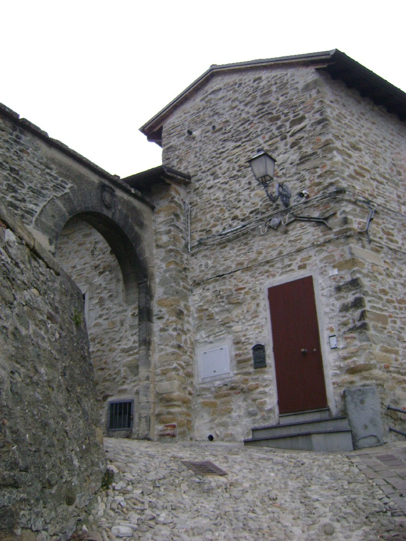 The portaccia , one of the two ancient accesses to Cusercoli